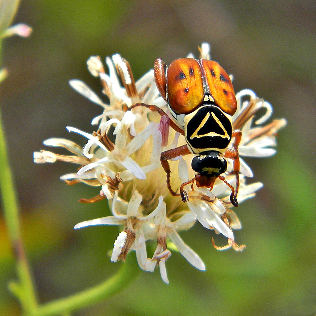 I call these "Pleiadian Space Beetles" but it turns out this unique beetle already has a name...the Delta Flower Scarab (Trigonopeltastes delta). The distinctive delta pattern on the pronotum is believed to be defensive mimicry of wasps, including the Southern yellowjacket and paper wasps. They feed on pollen and nectar and their larvae live in decaying wood. This one was found on Coastalplain palafox (Palafoxia integrifolia) at Jonathan Dickinson State Park, Florida.